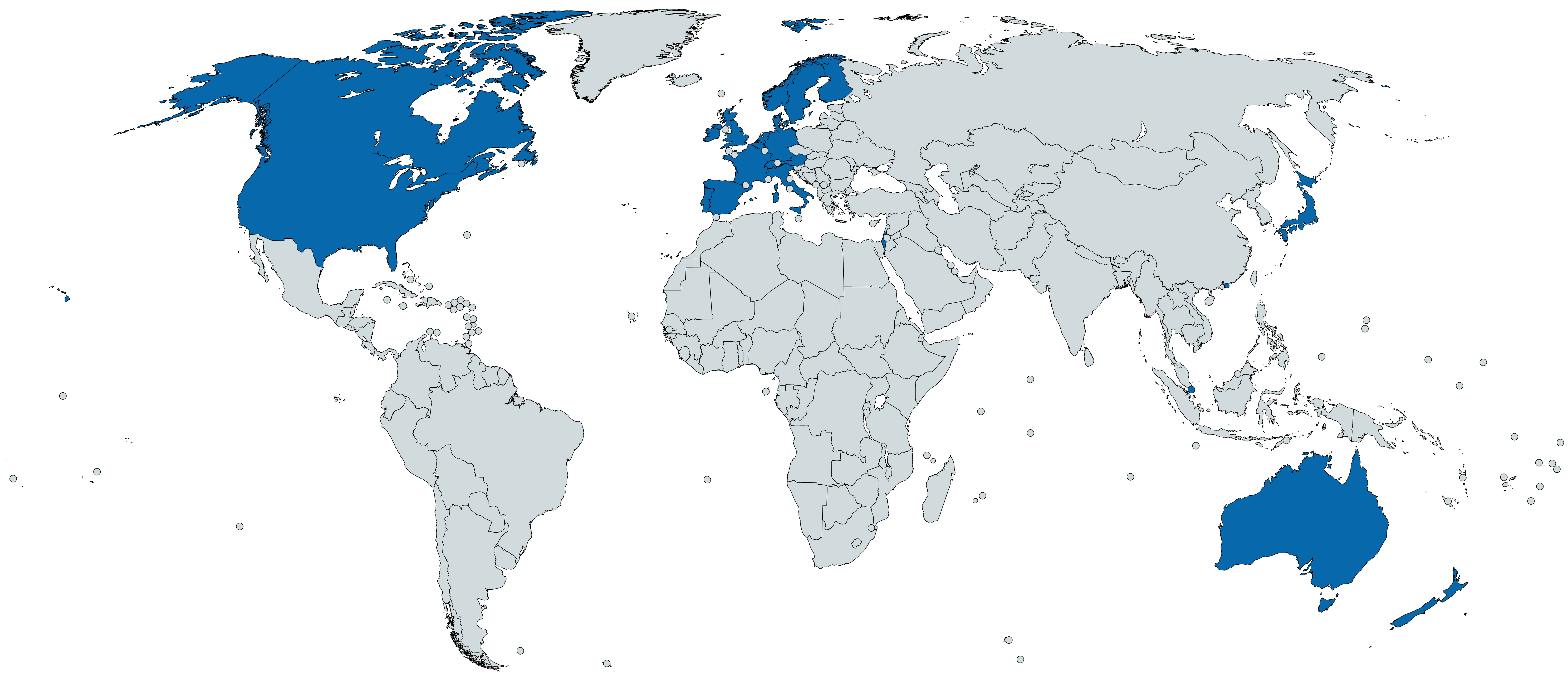 Map of all countries included in the MSCI World index as of Sept 28, 2018, created with